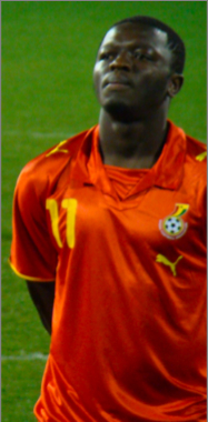 Ghanaian footballer Sulley Ali Muntari.